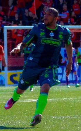 Ecuadorian player Cristian Suarez